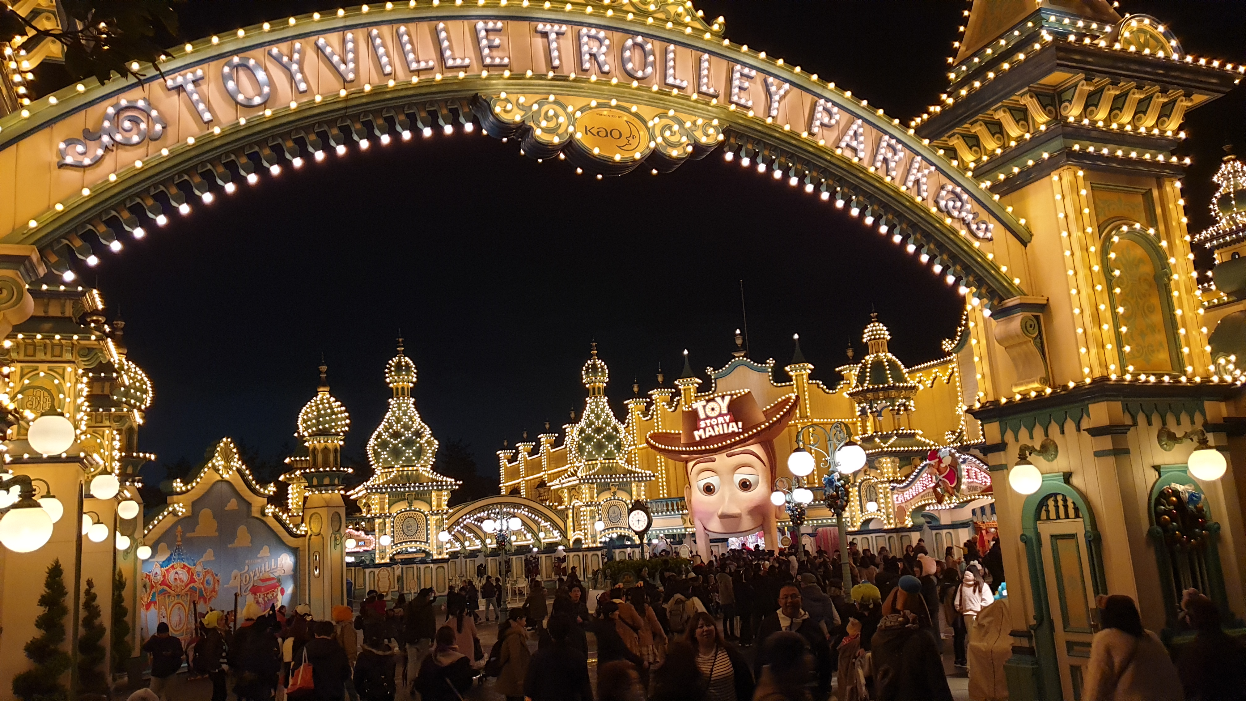 Toy Story Mania! at Toyville Trolley Park at night - Tokyo DisneySea - Dec 2019